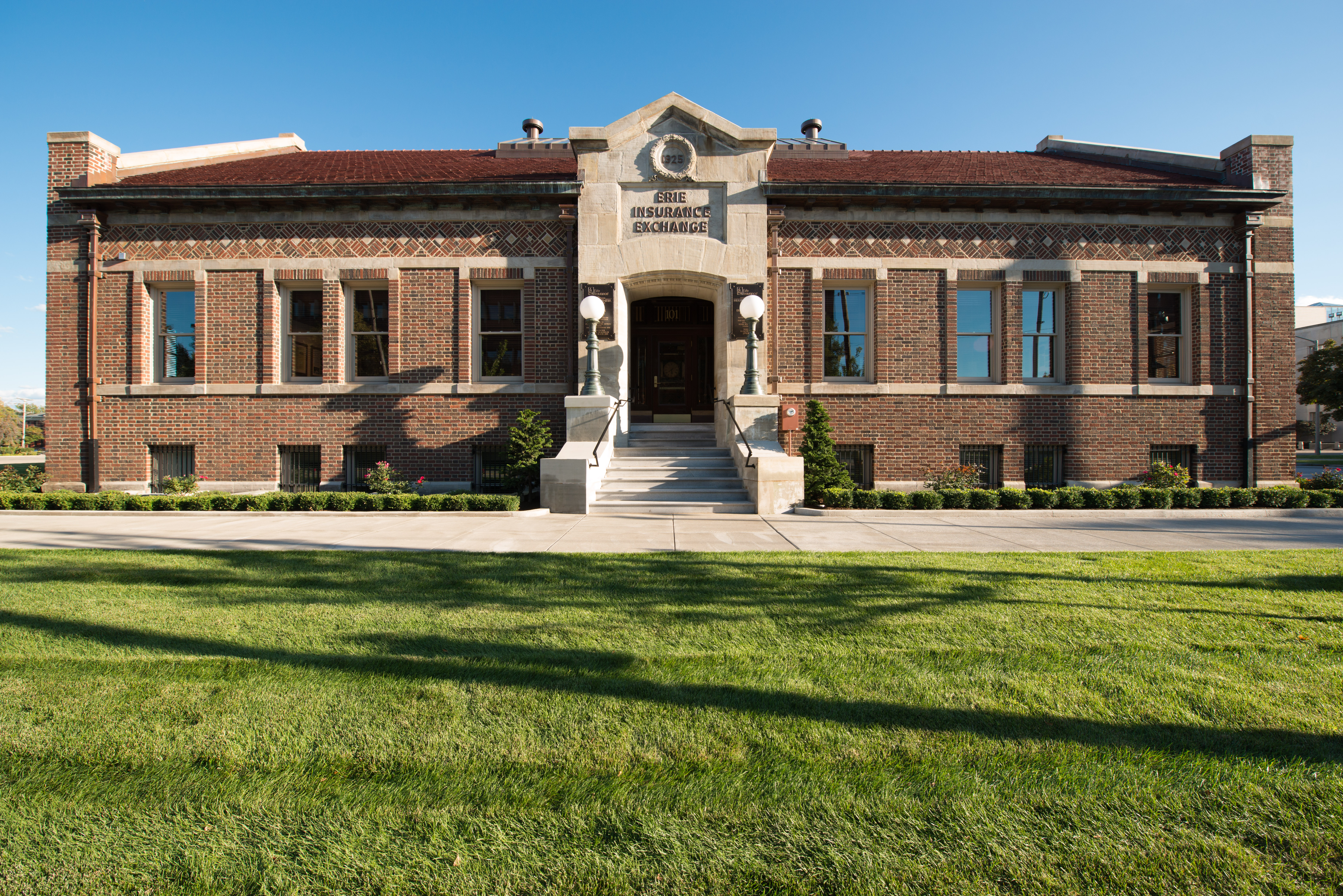 Erie Insurance Heritage Center